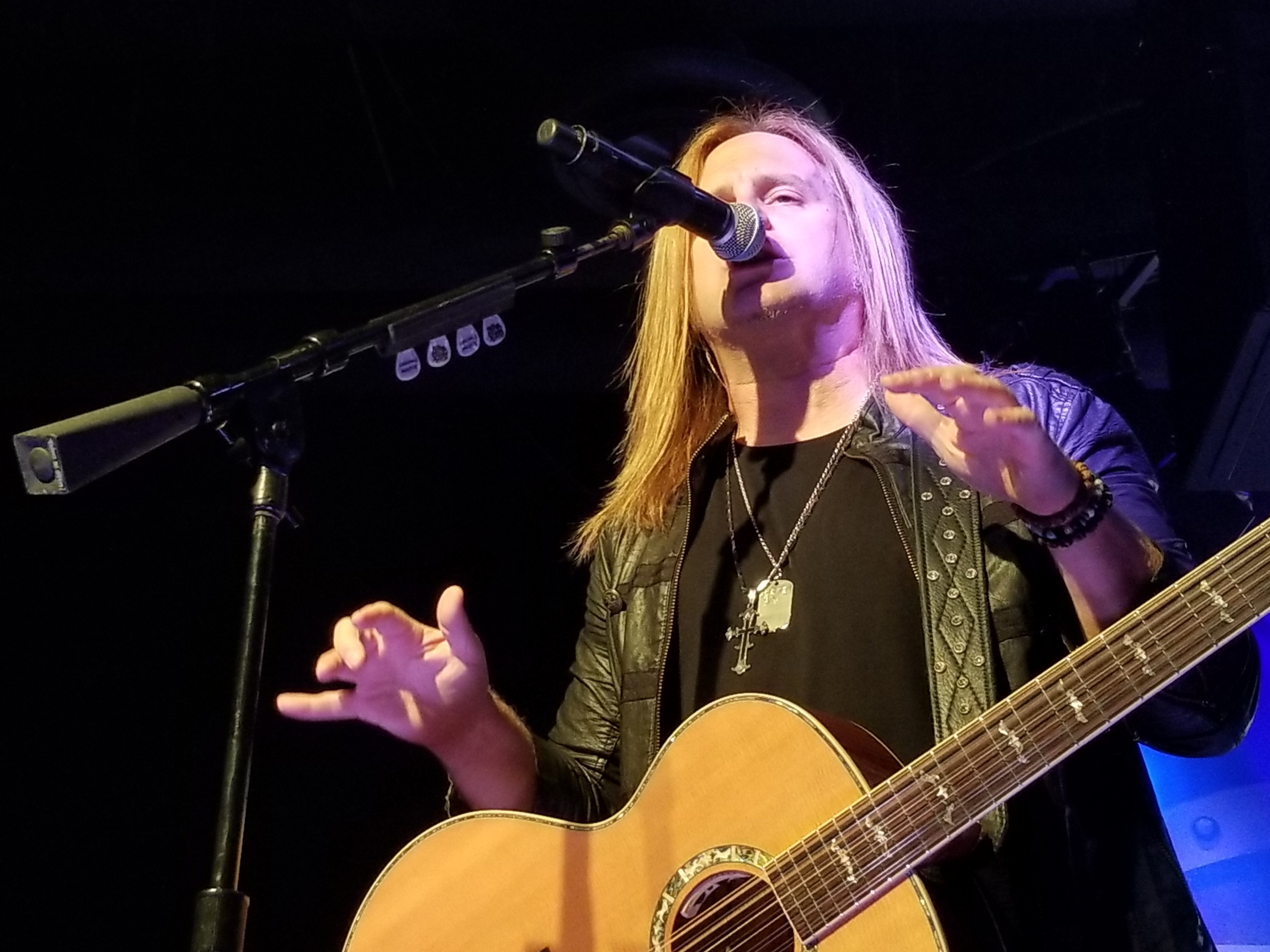 Andrew Freeman, singer of Last In Line, performing with Raiding the Rock Vault in Las Vegas, October 2018